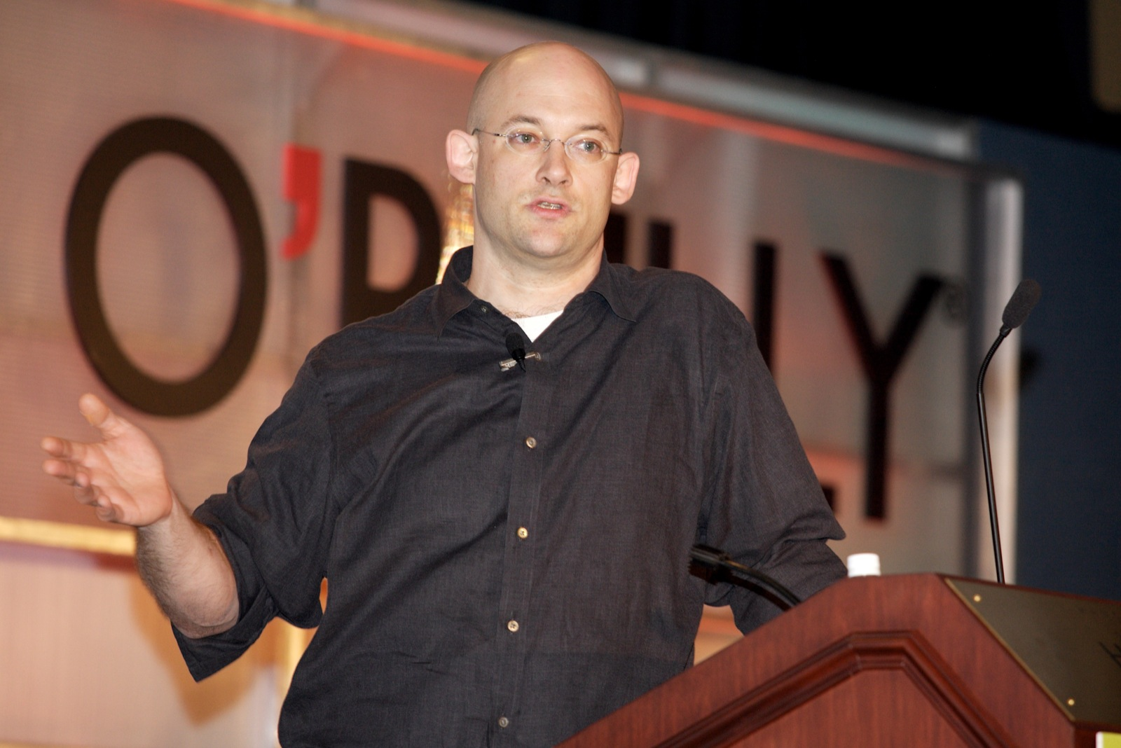 Clay Shirky at the 2006 O'Reilly Emerging Technology Conference.